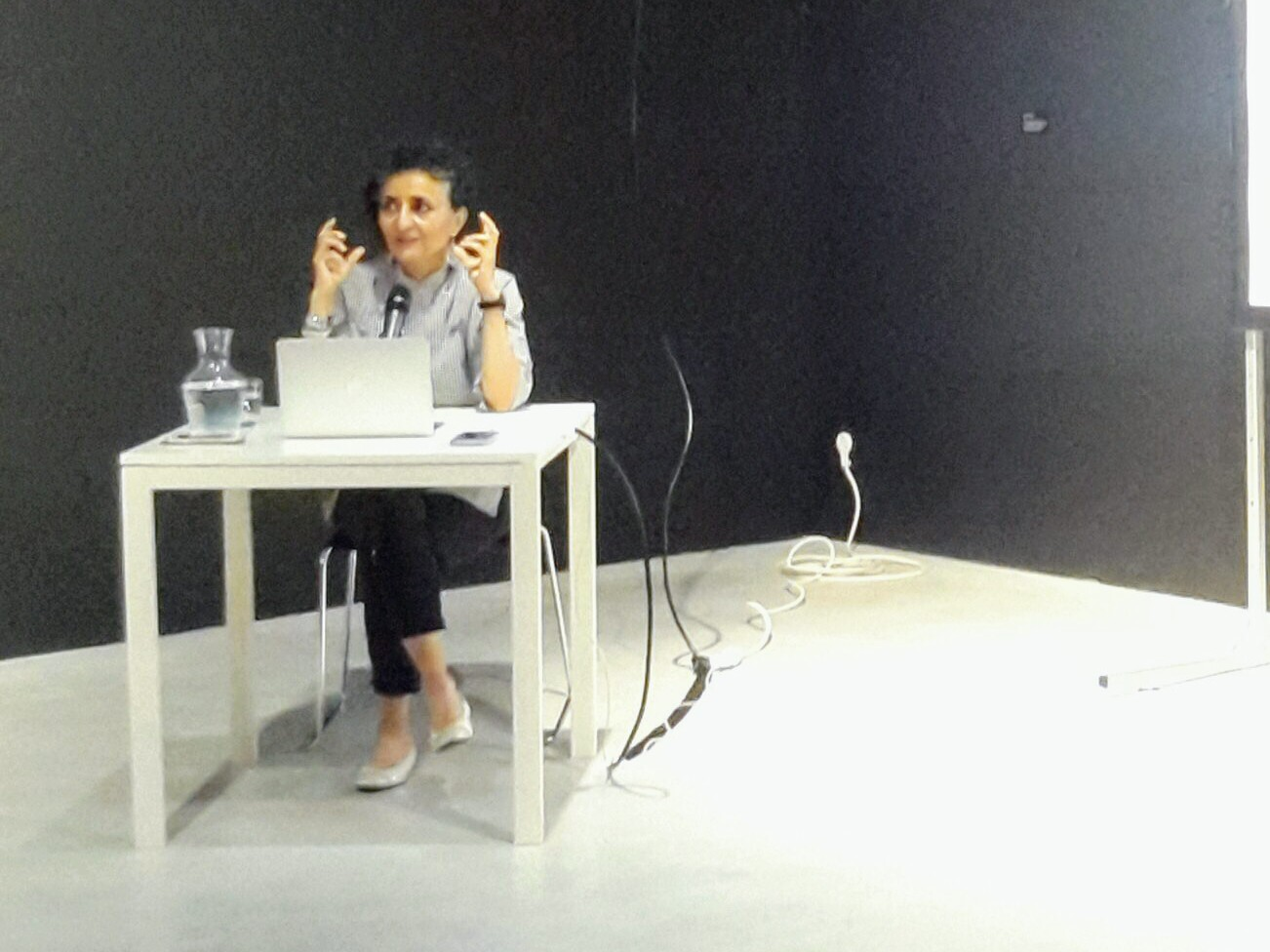 Ghada Amer presenting her work during a conference in Tours (France) at the CCCOD on june 3rd 2018.